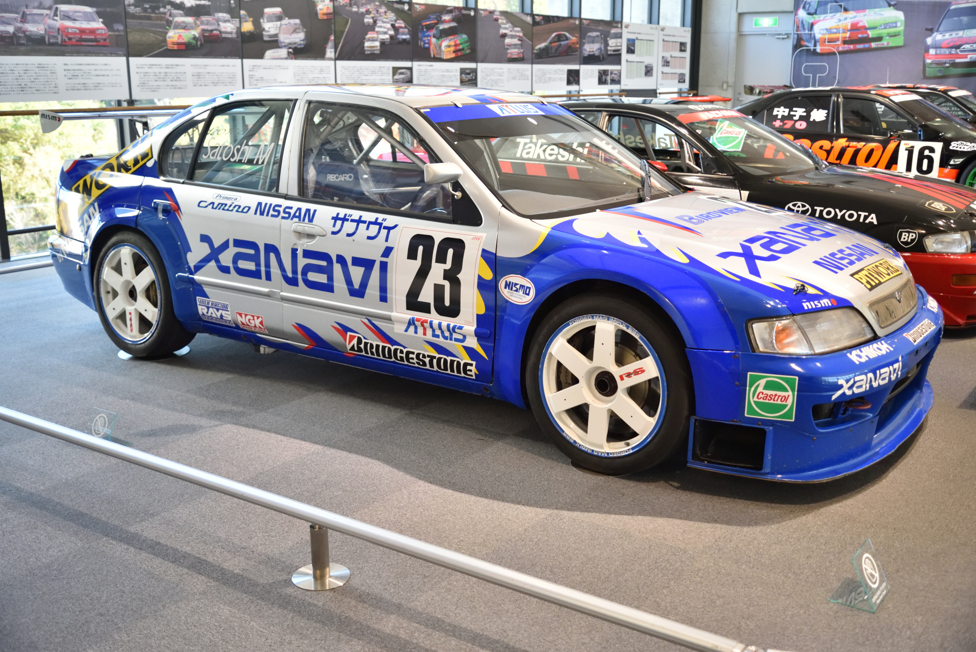 NISSAN PRIMERA XANAVI CAMINO (Satoshi Motoyama, 1997 JTCC)